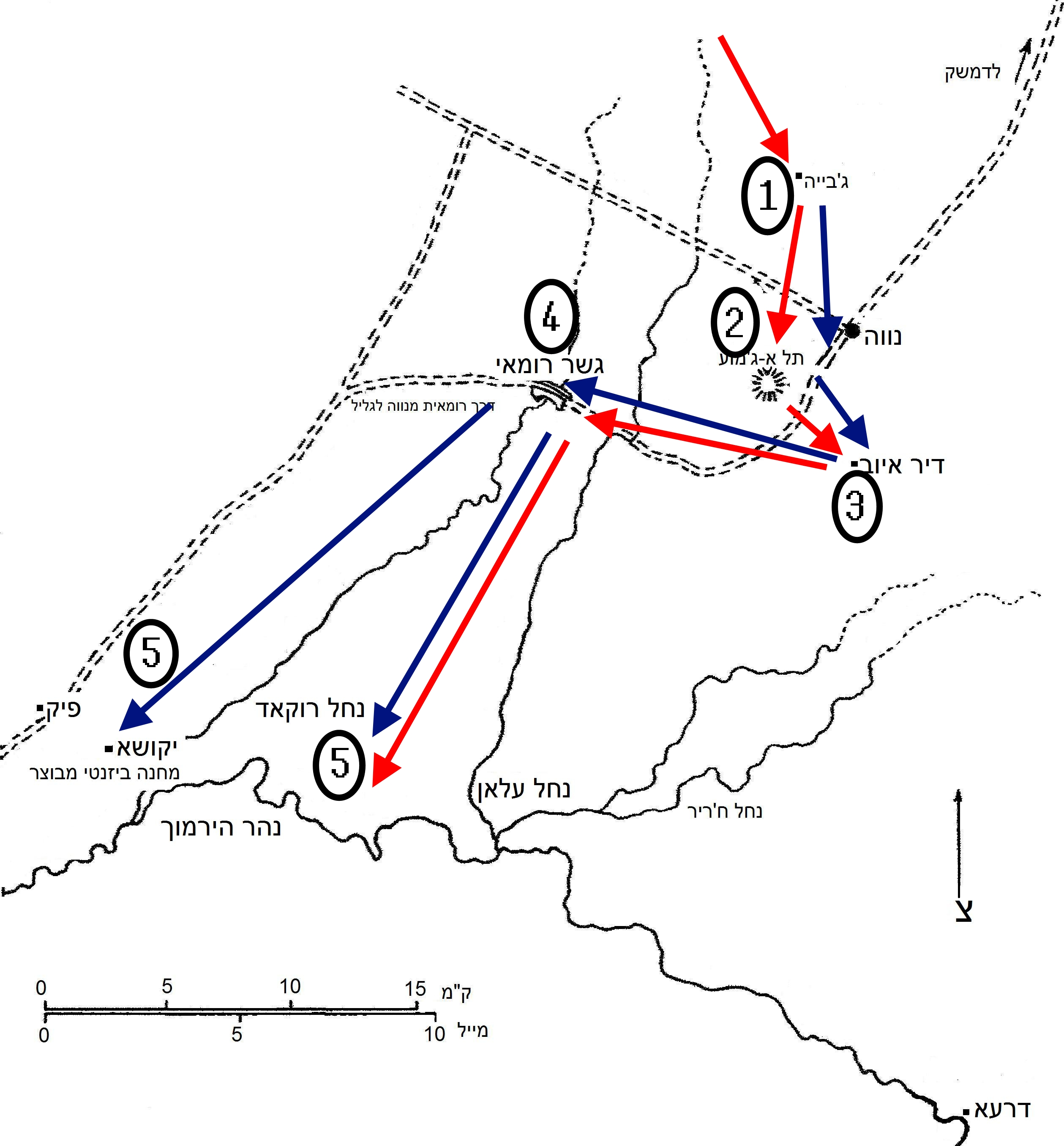 battle of yarmouk, based on Kaegi, Walter Emil book , "Byzantium and the Early Islamic Conquests" ISBN 0521484553